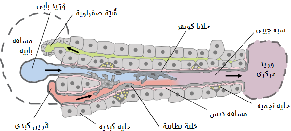 Illustration of part of a mammalian liver lobule